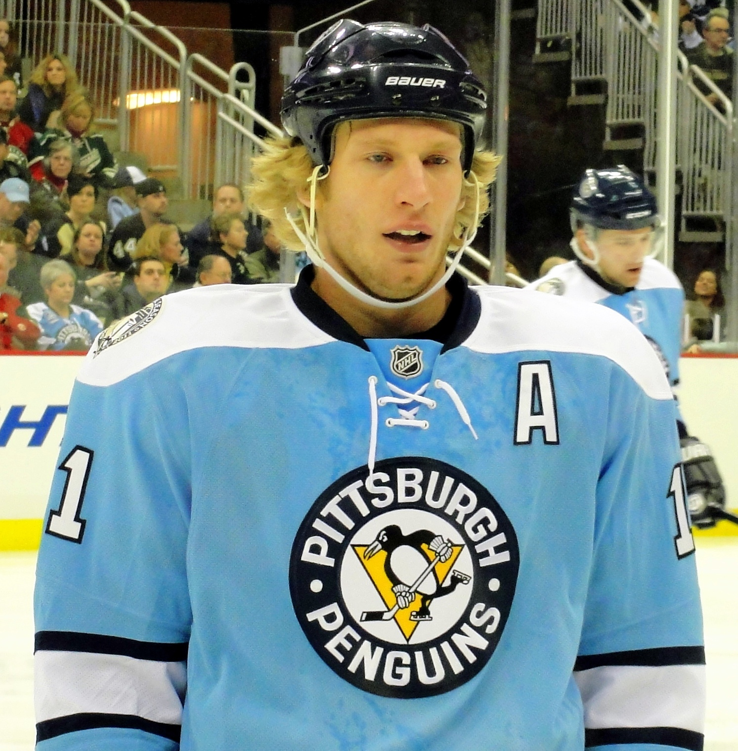 Pittsburgh Penguins center Jordan Staal skates against the Minnesota Wild in a January 8, 2011 game at Consol Energy Center in Pittsburgh, PA.